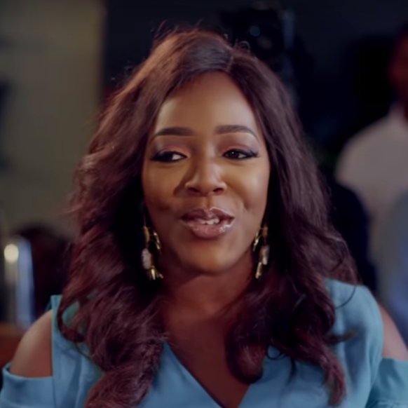 NdaniRealTalk S2E1 : "So She's Dressed Provocatively ..."Nicole Asinugo is joined by Lola Adamson, DJ Obi, Eniola Abumere & Beverly Naya